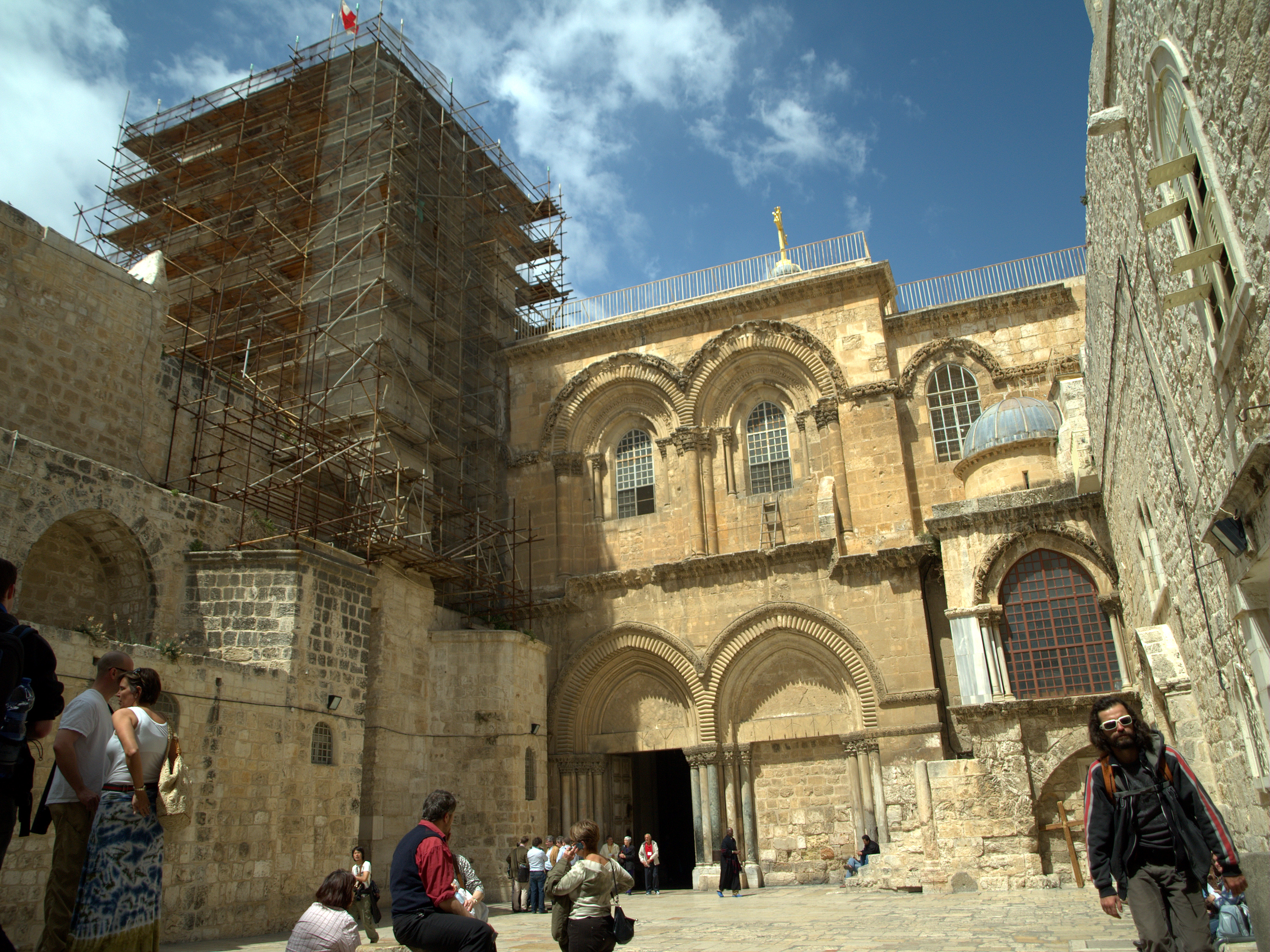 The Church of the Holy Sepulchre in Jerusalem.